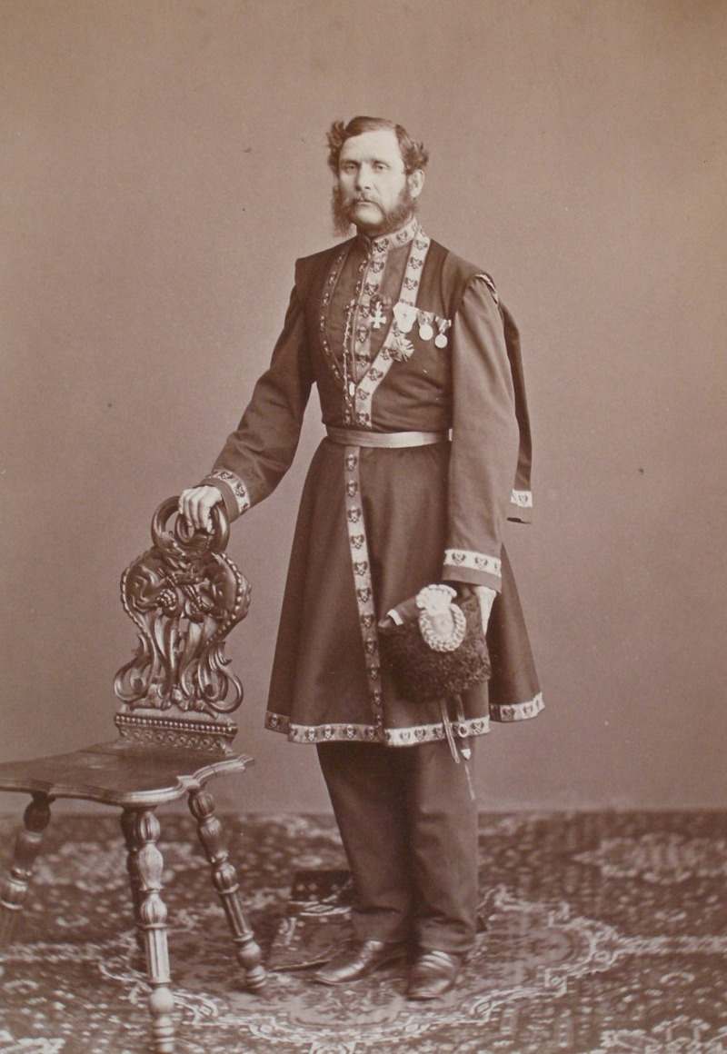 Valet-Cossack Tikhon Egorovich Sidorov (1826-1888). The photo was taken before 1888.